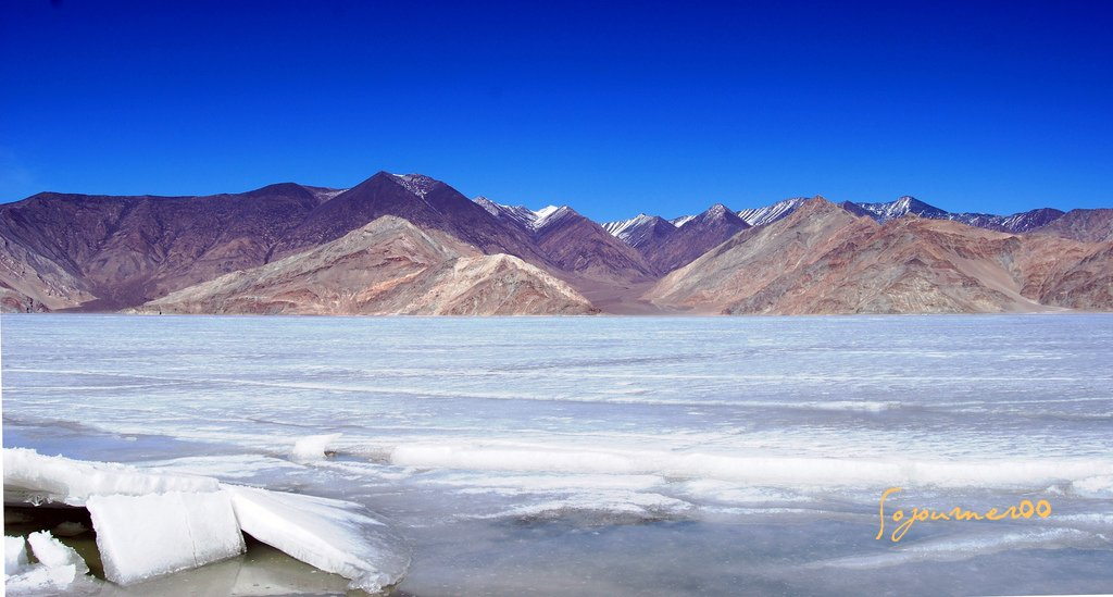 Frozen, Pangong Tso